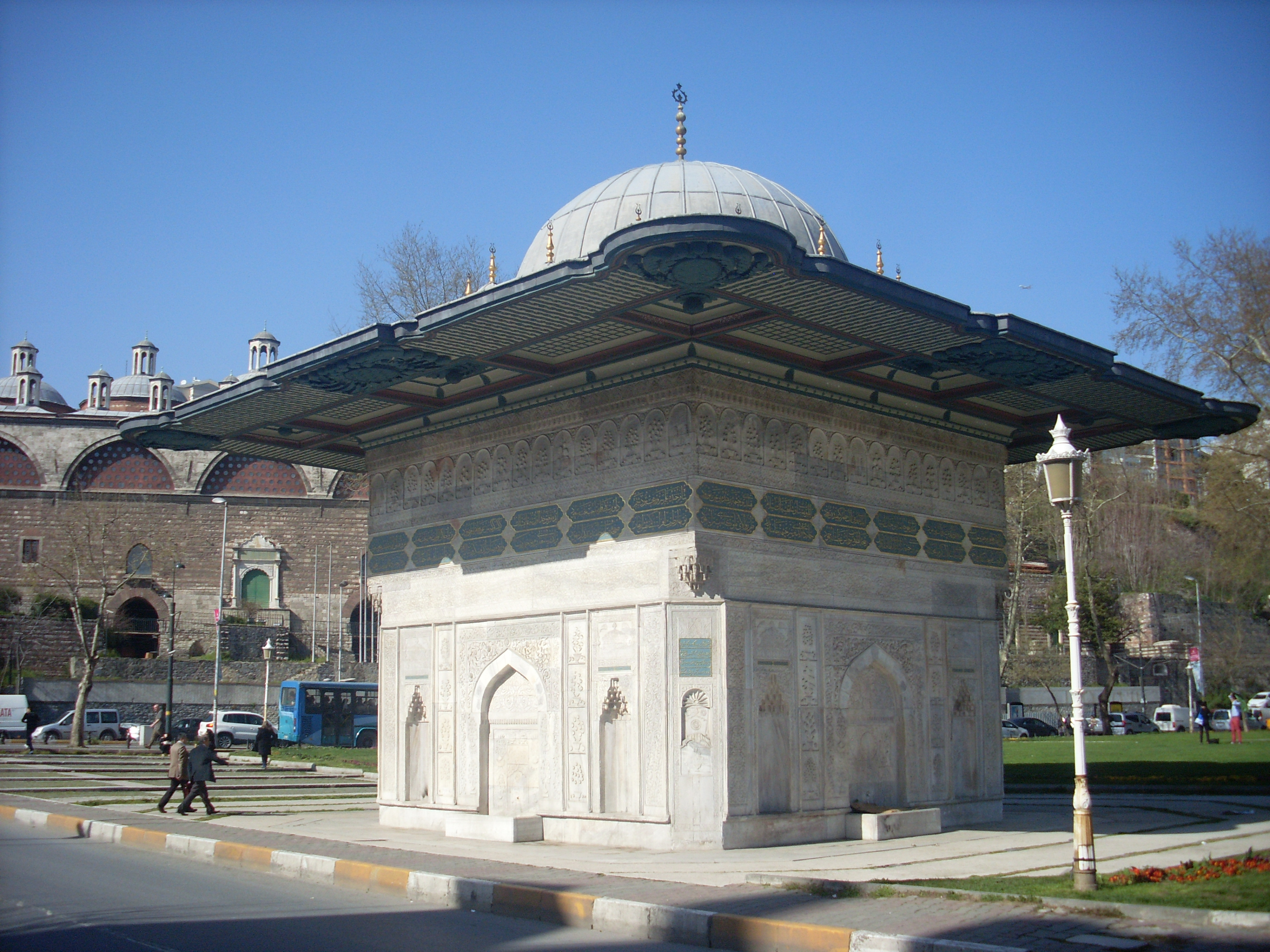 Tophane Fountain p1